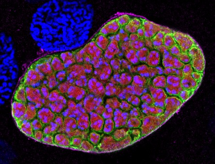 A liver stage of the rodent malaria parasite Plasmodium berghei. This picture is taken by Paul Christian Burda